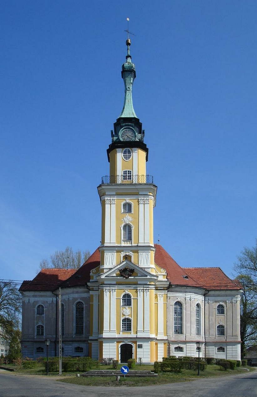 Evangelical church in village Pokój, Poland (before 1945 Bad Carlsruhe)